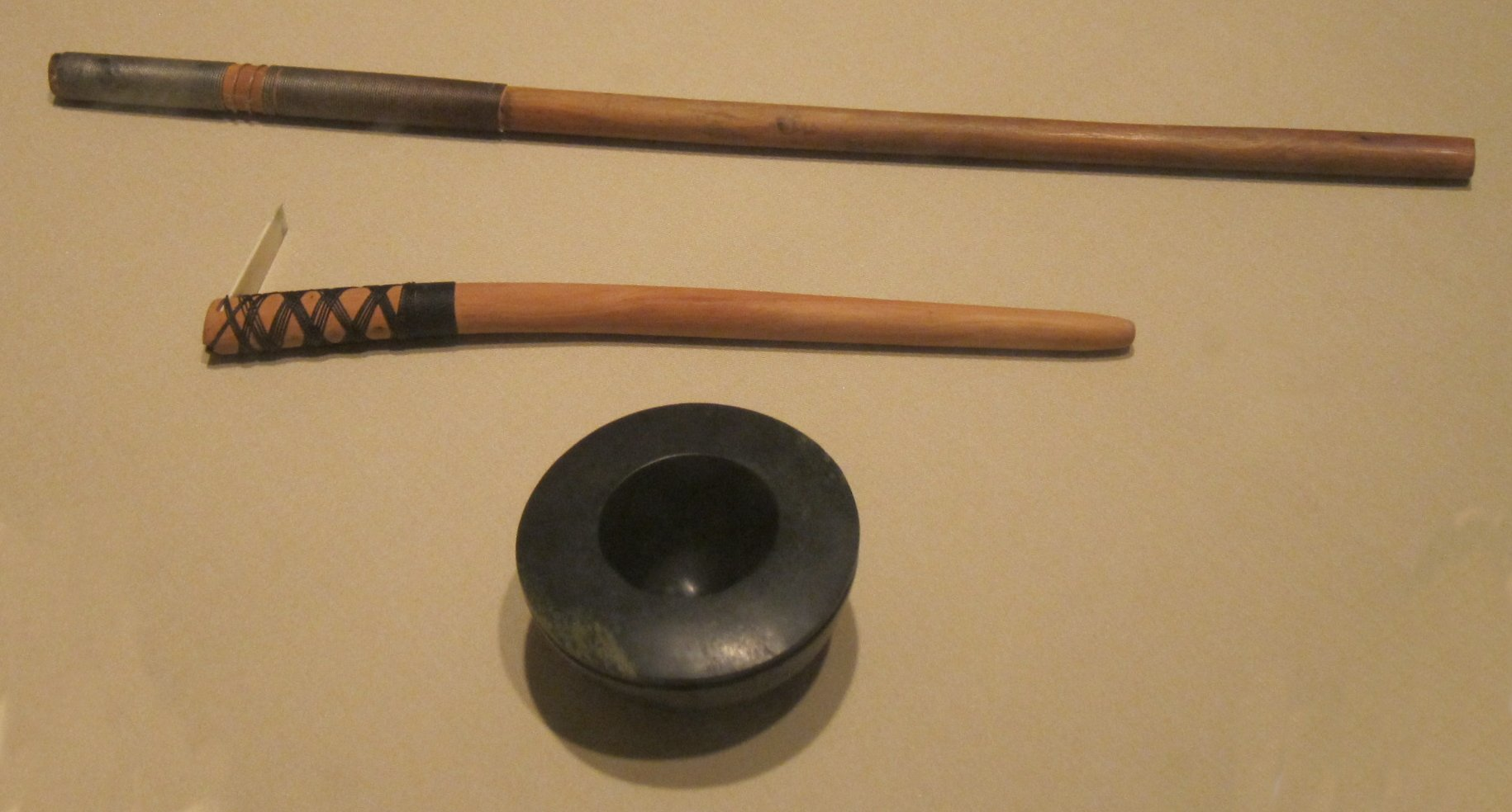 Instruments for traditional Pacific Island tattoos: hāhau (tapping stick) made of ulei wood, moli (tattoo tool) made of wood and bone, and apu paʻu (ink bowl), made of jade